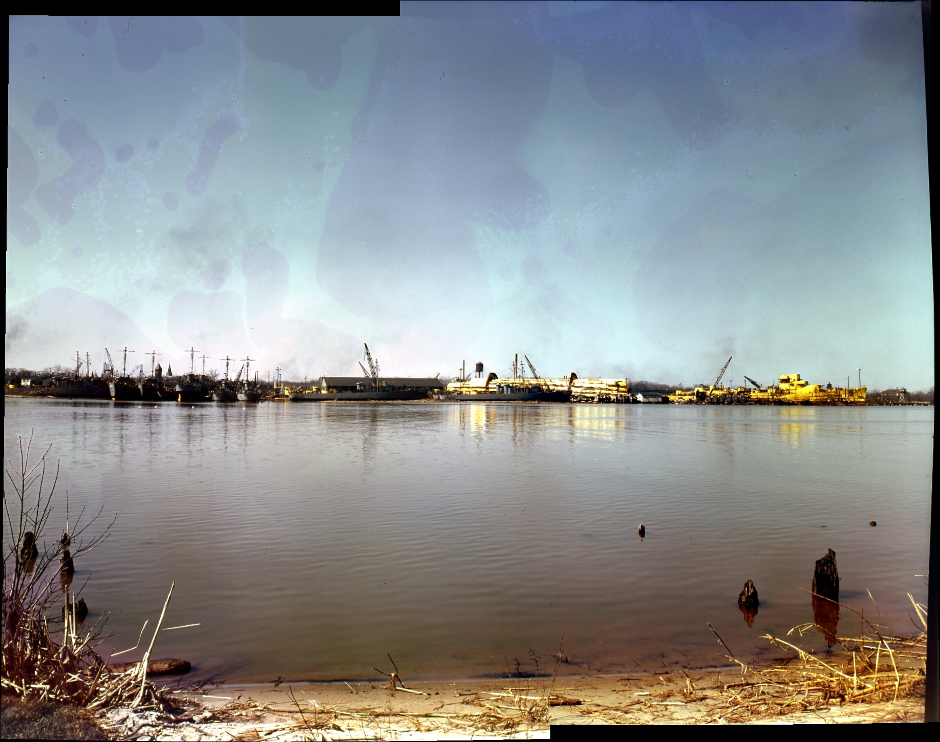 Clear view of 'rollover' process of construction. Along the Saginaw River. Color 4x5 slide.